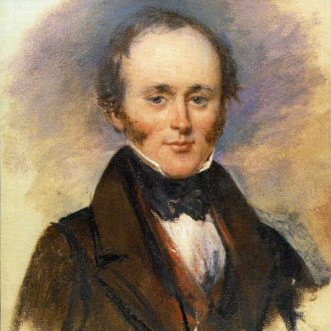 Depicted person: Charles Lyell – British lawyer and geologist